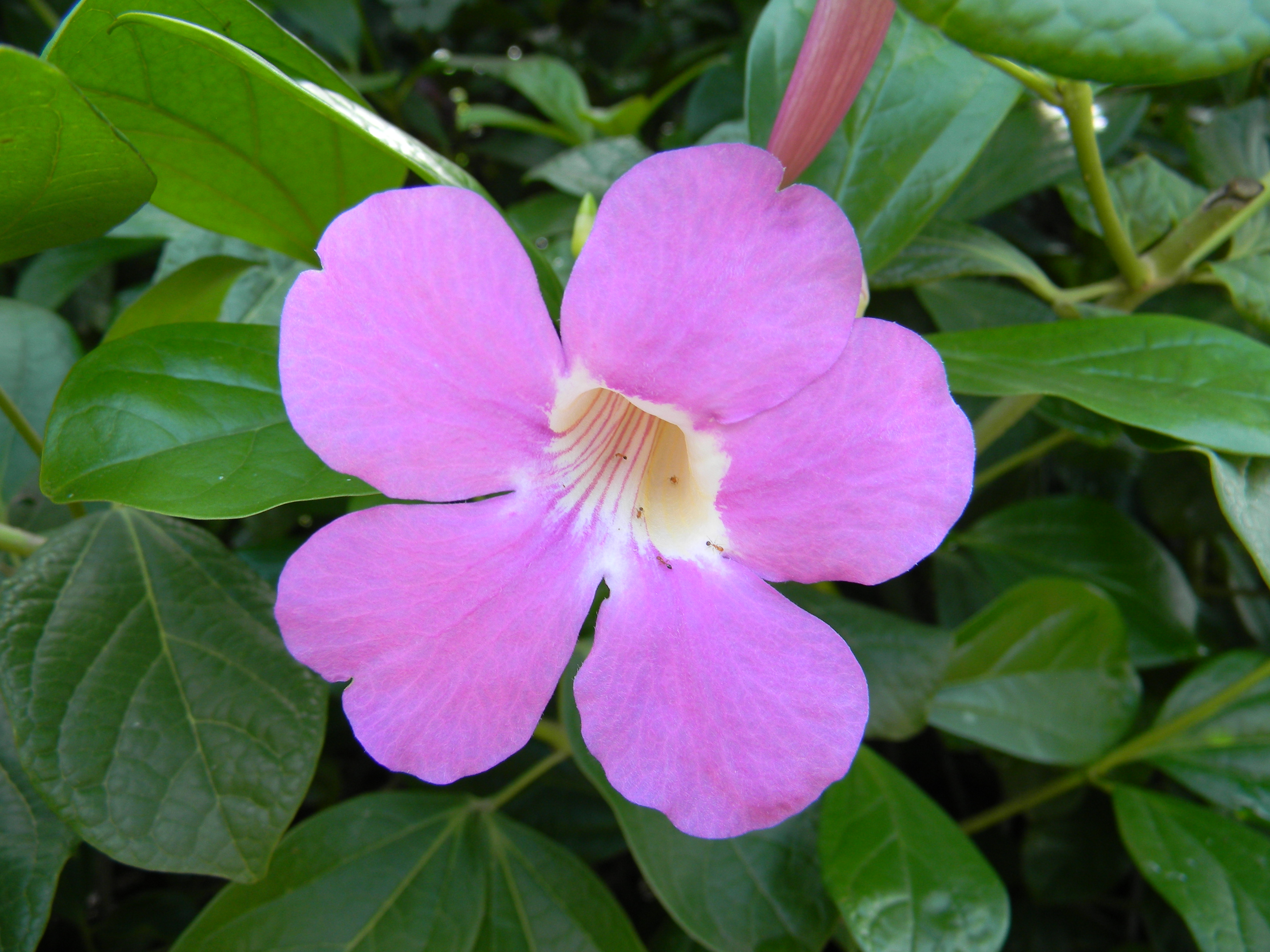 Common name - Glowvine Description - Clusters of fragrant medium-sized rose purple trumpet-shaped salverform flowers with five rounded lobes, a flattened corolla tube and a white throat streaked with fine parallel lines. A scandent shrub with smooth leathery obovate leaves